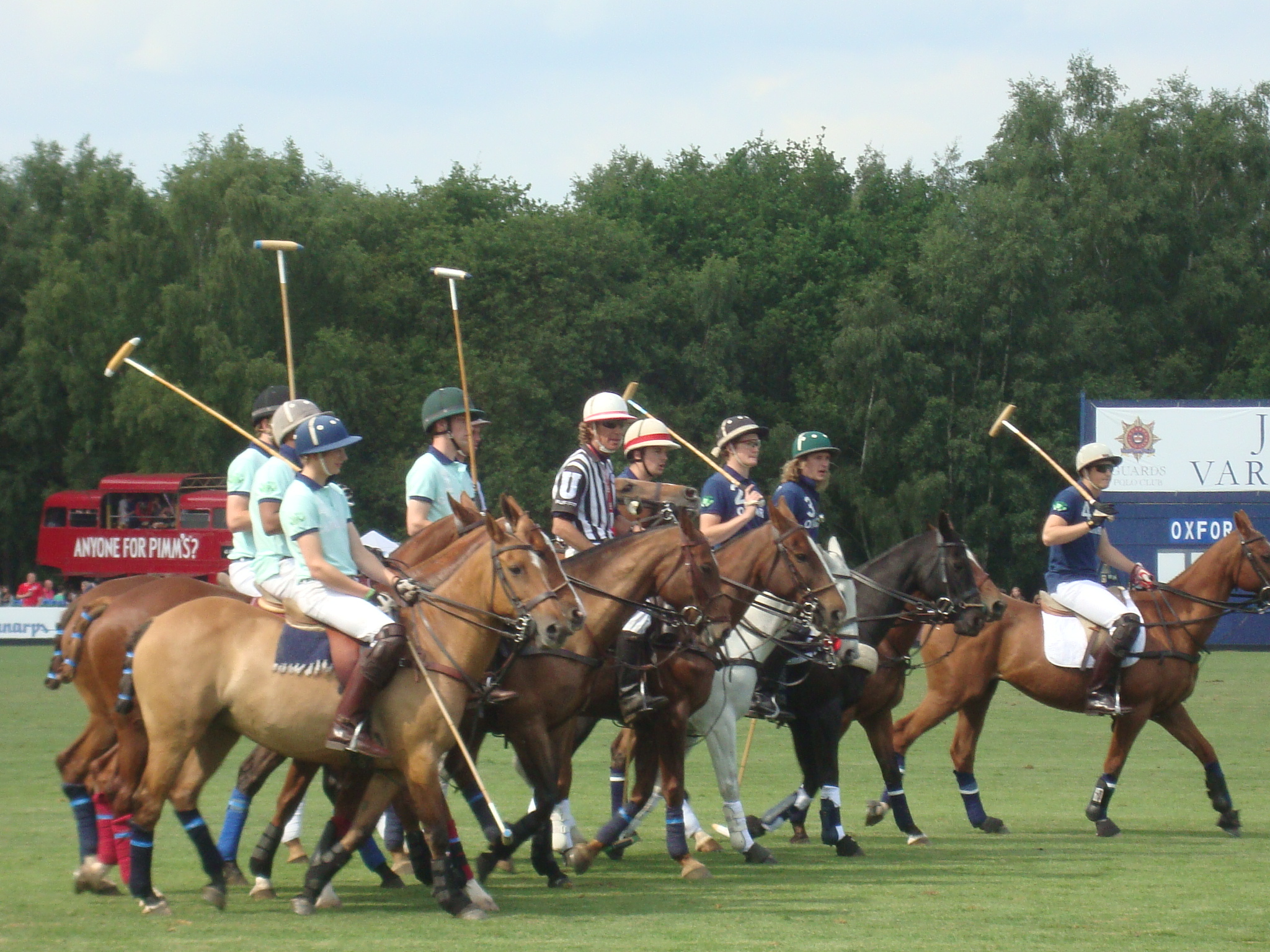 Varsity Polo Match 2010 Oxford vs Cambridge